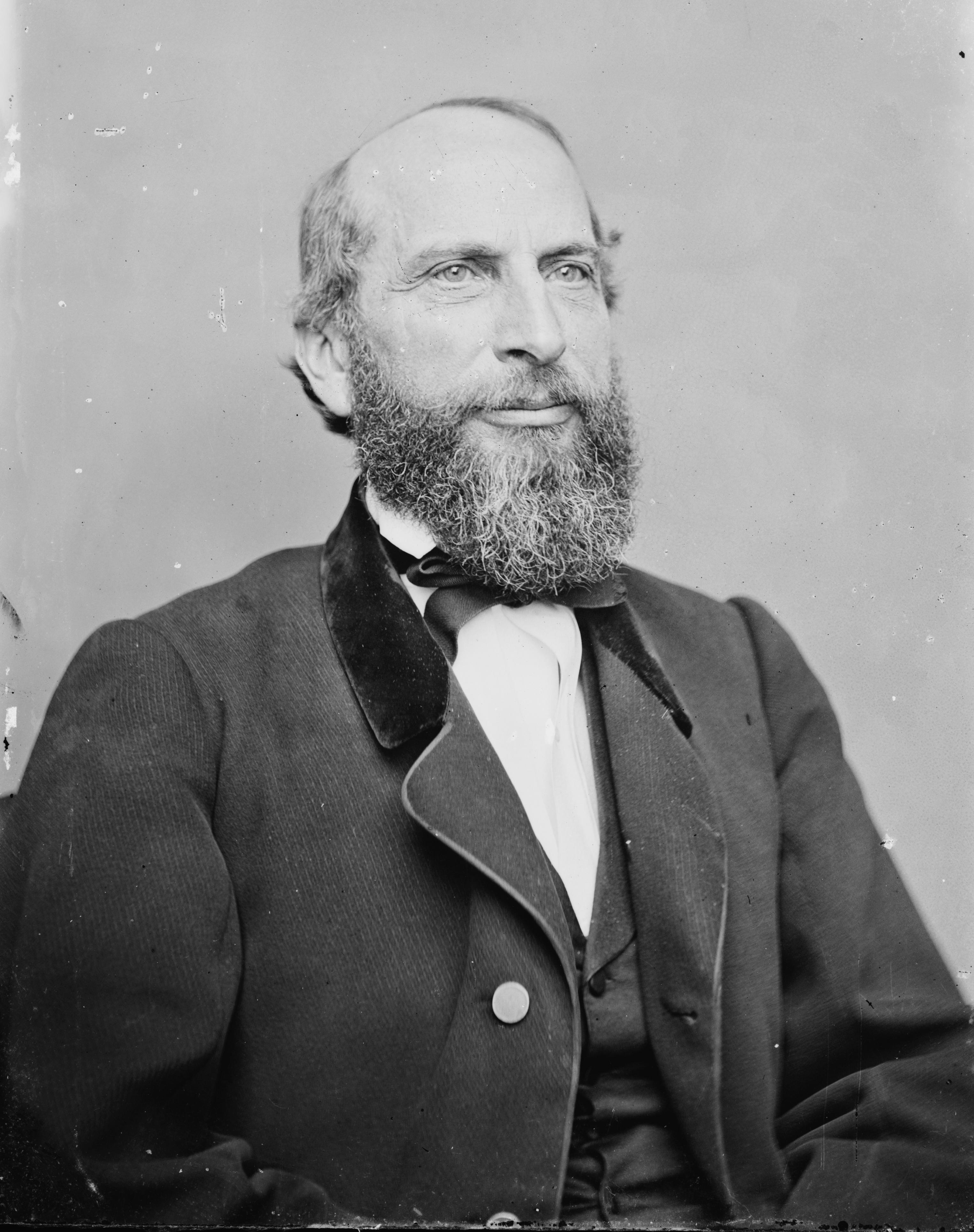 James Speed. Library of Congress description: "J. Speed".